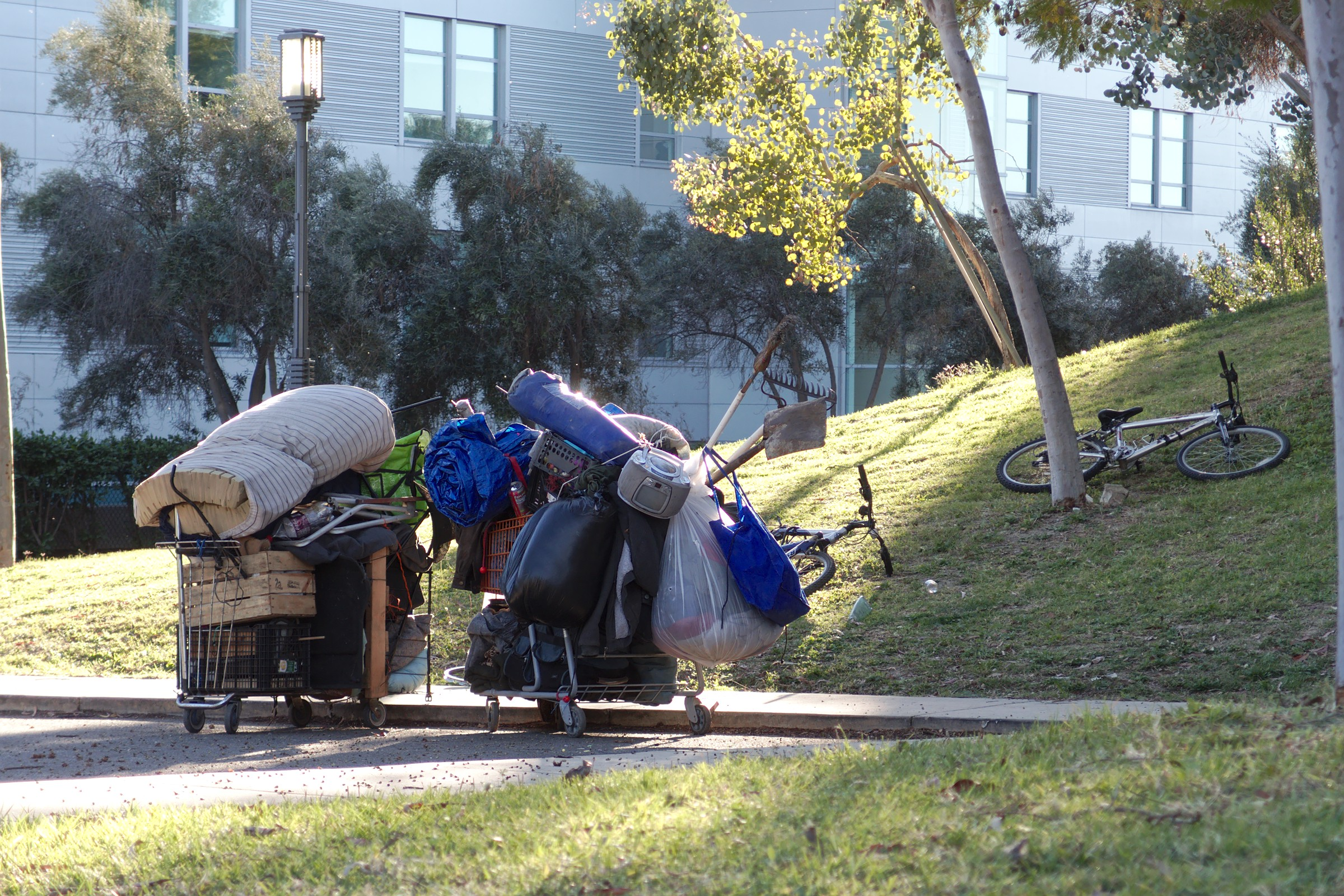 Creatively loaded shopping carts at Barnsdall Art Park.